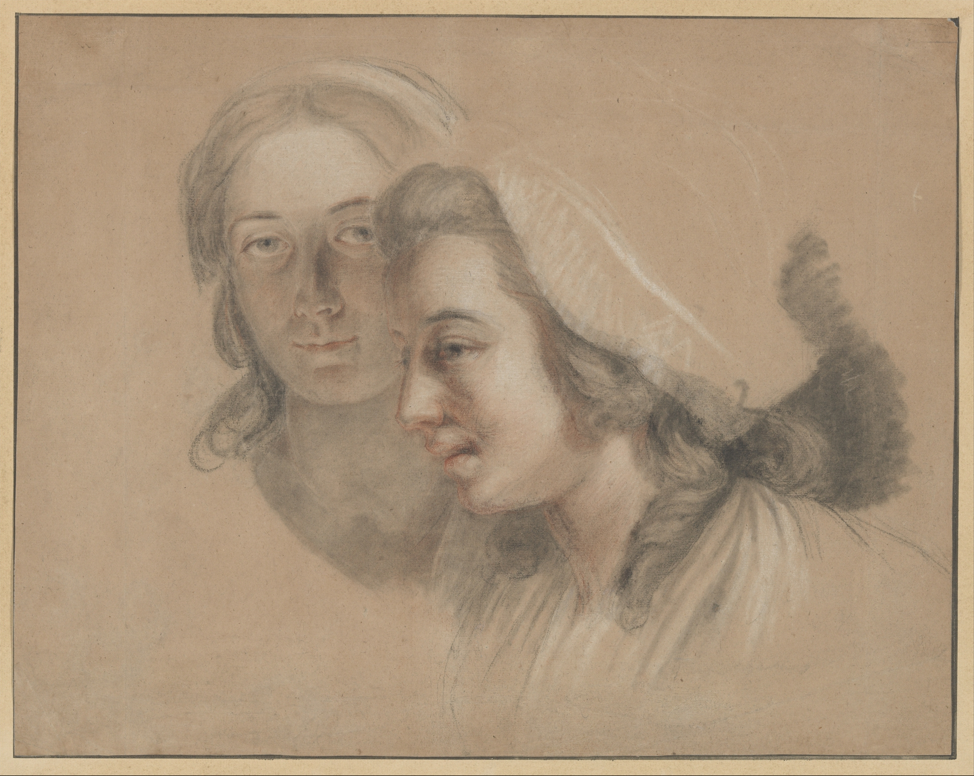 From the MET notice : Adélaïde Labille-Guiard "drew this study of the heads of her two students in preparation for her lifesize Self-Portrait with Two Pupils, which is in the Metropolitan Museum's European Paintings collection. Although the figures are full-length in the painting, this study focuses on the placement of the two heads, their proximity to one another, their crossed gazes, and the effects of light and shadow."